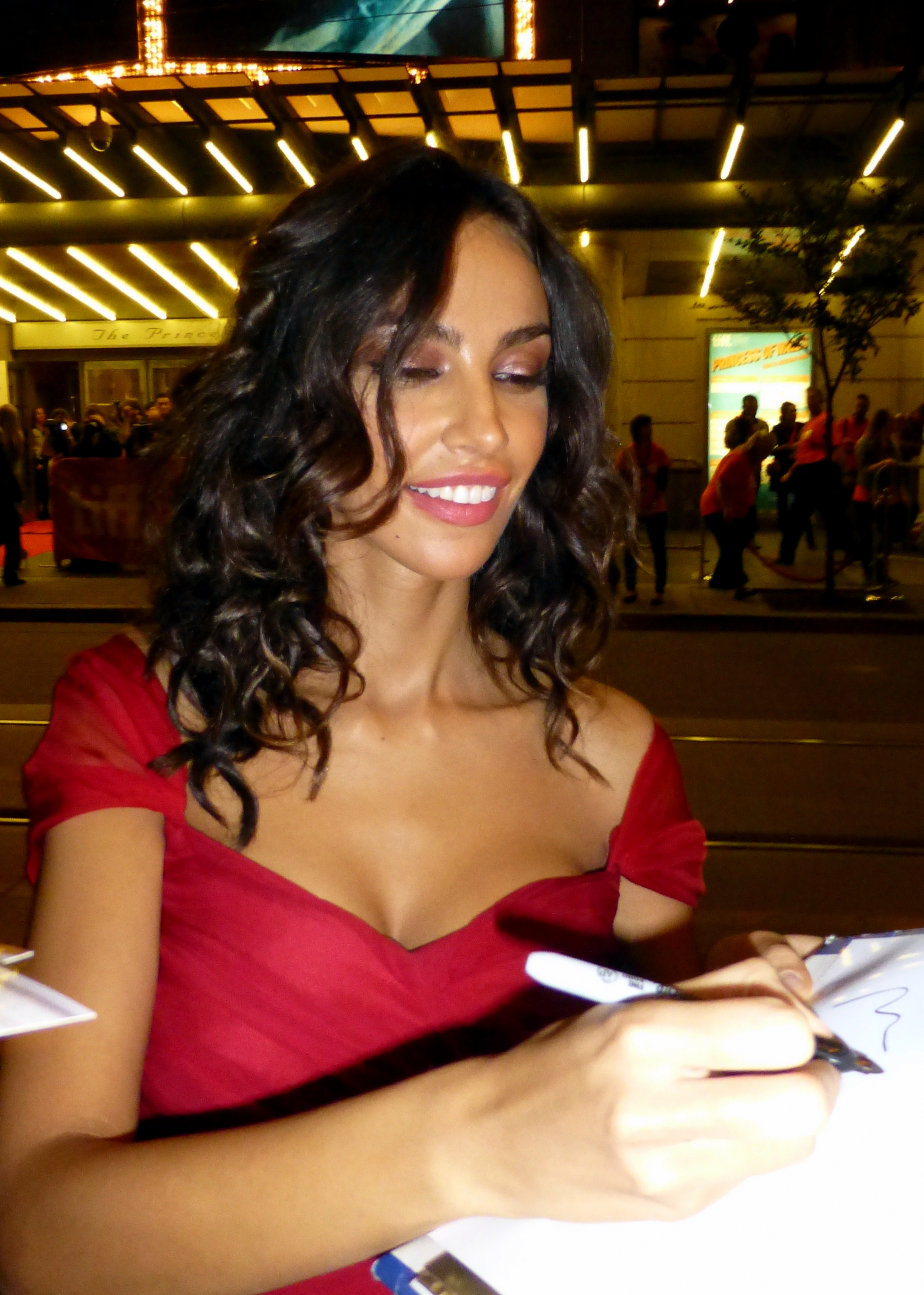 Madalina Ghenea at the premiere of Dom Hemingway, Toronto Film Festival 2013